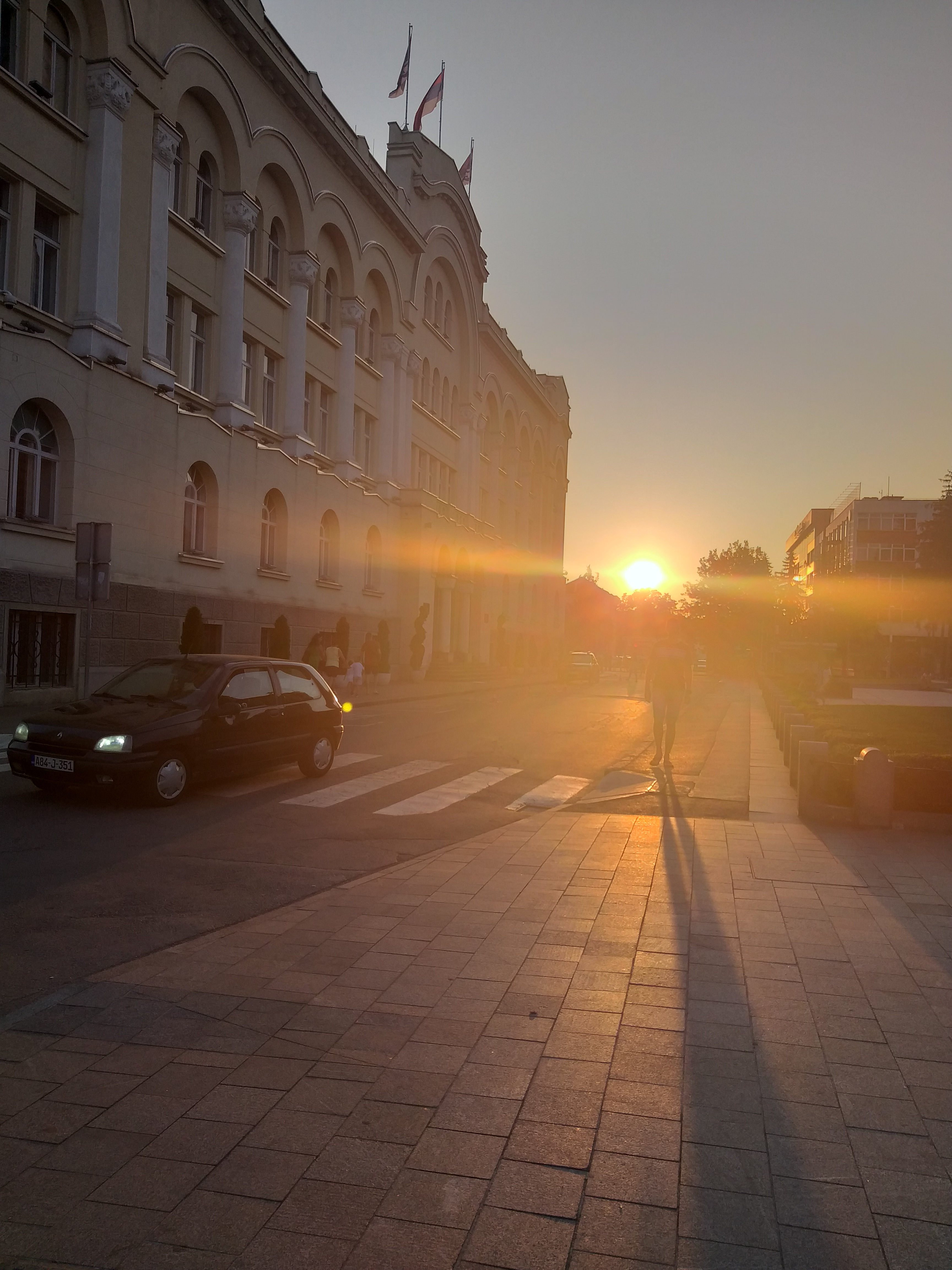 Building of Banja Luka City Assembly on sunset